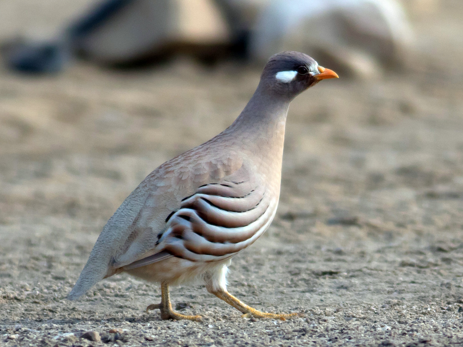 Sand partridge